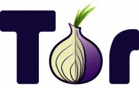 Tor logo